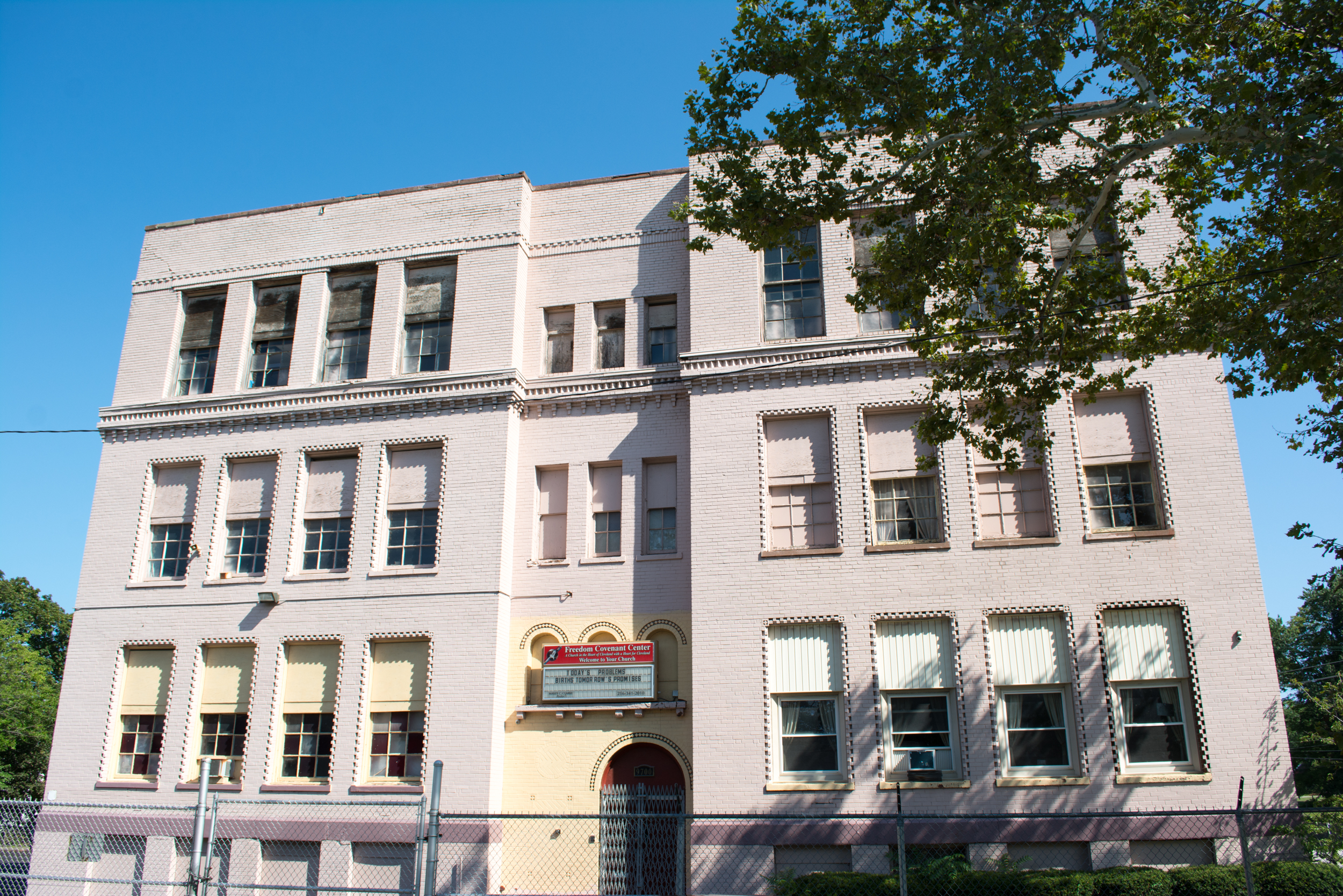 Main entrance (south facade) of the Boulevard School at 9700 Kinsman Road in Cleveland, Ohio, in the United States. Opened in 1910, it closed in 1980 and was sold by the Cleveland Metropolitan School District to a private buyer.